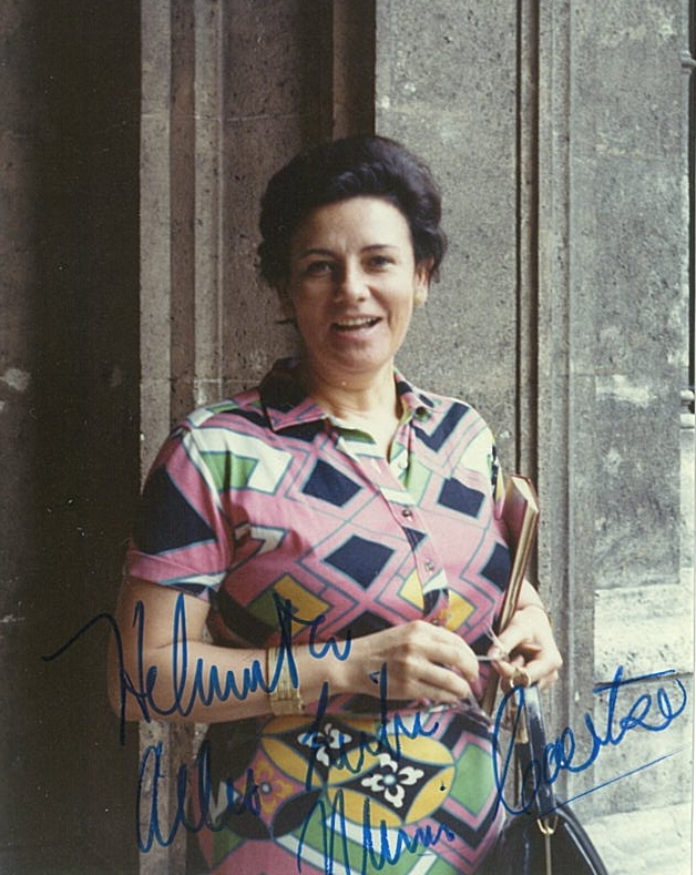 Mimi_Coertse_Wien